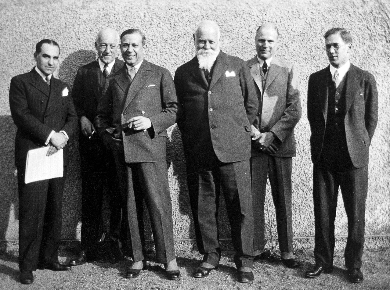 Group Photograph: (left to right) Stephen d'Irsay, A.C. Klebs, H.E. Sigerist, Karl Sudhoff, F.W.T. Hunger, Owsei Temkin